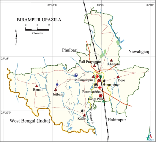 The map of city